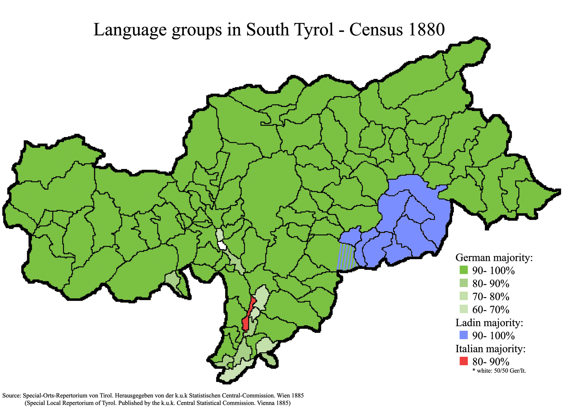 Ethnic Distribution South Tyrol Census 1880 Source: Special-Orts-Repertorium von Tirol. Herausgegeben von der k.u.k Statistischen Central-Commission. Wien 1885 (Special Local Repertorium of Tyrol. Published by the k.u.k. Central Statistical Commission. Vienna 1885)